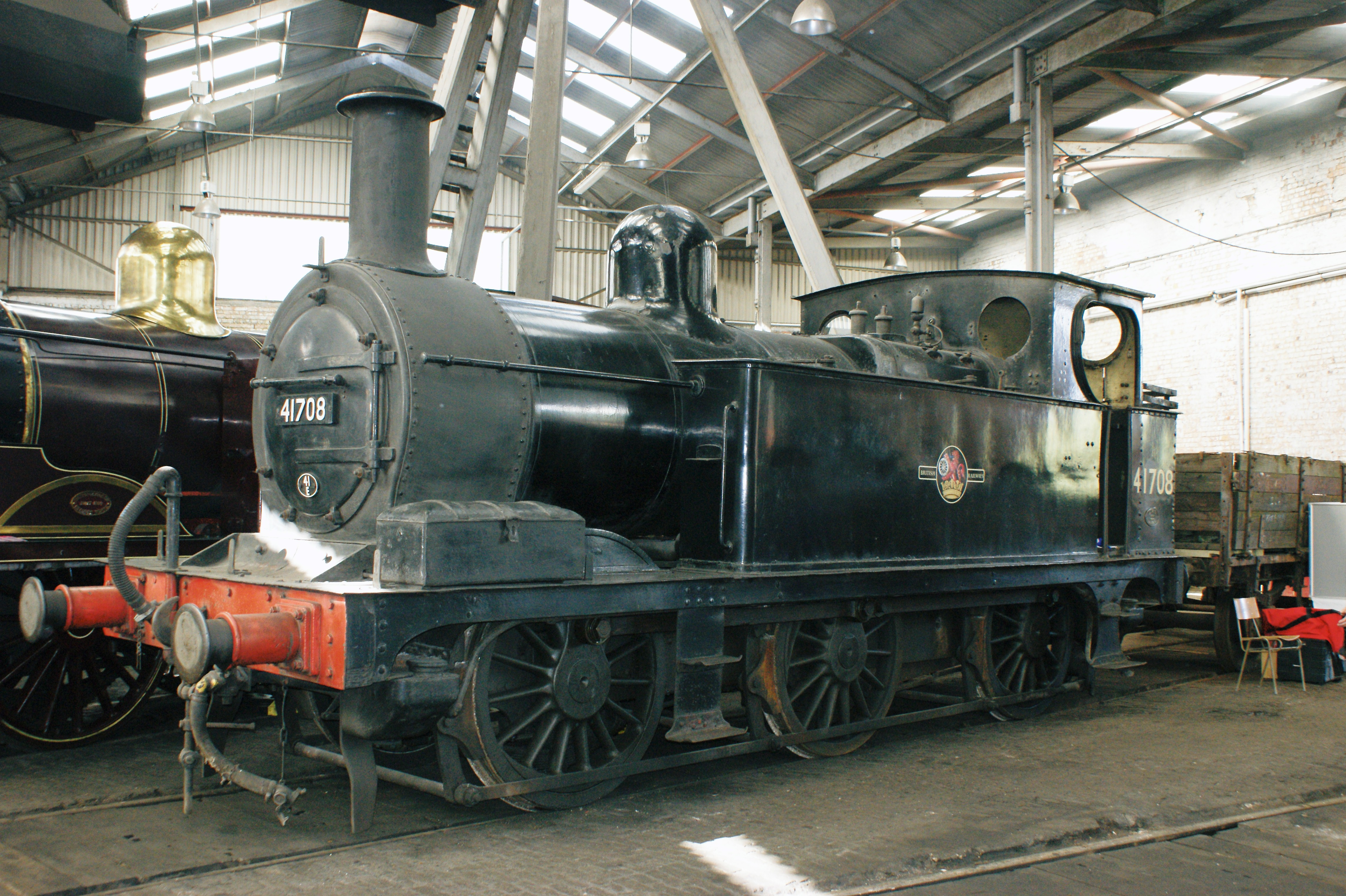 Midland Railway Johnson Class 1F 0-6-0 No.1708 (BR 41708) in BR plain black livery at Barrow Hill, 8/08